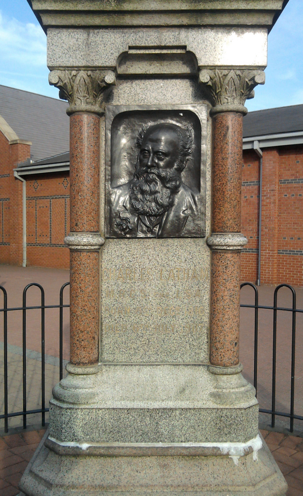 Charles Latham MRCS LSA (1816-1907) public memorial statue/monument in Sandbach, Cheshire, between Ashfields and Aldi. A "Surgeon General Practitioner" [1] (physician), he was born in Sandbach on 6 Dec 1816 (the son of Richard and Sarah Latham, [2]), he married Mary Newham, and died in Sandbach on 6 July 1907 aged 90. He held Membership of the Royal College of Surgeons, and was a Licenciate of the Society of Apothecaries.